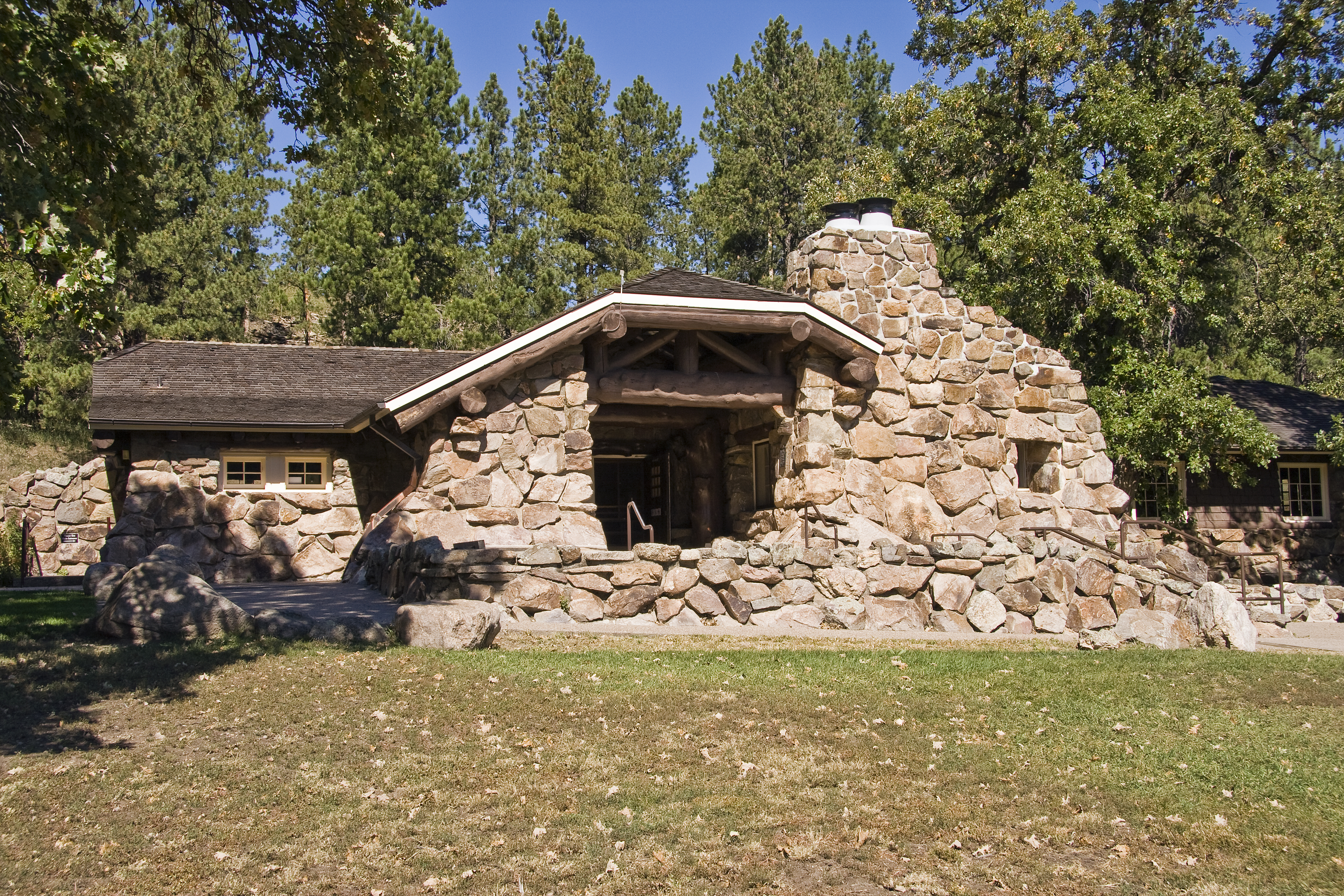 Peter Norbeck Visitor Center, Custer State Park, near Custer, South Dakota, USA